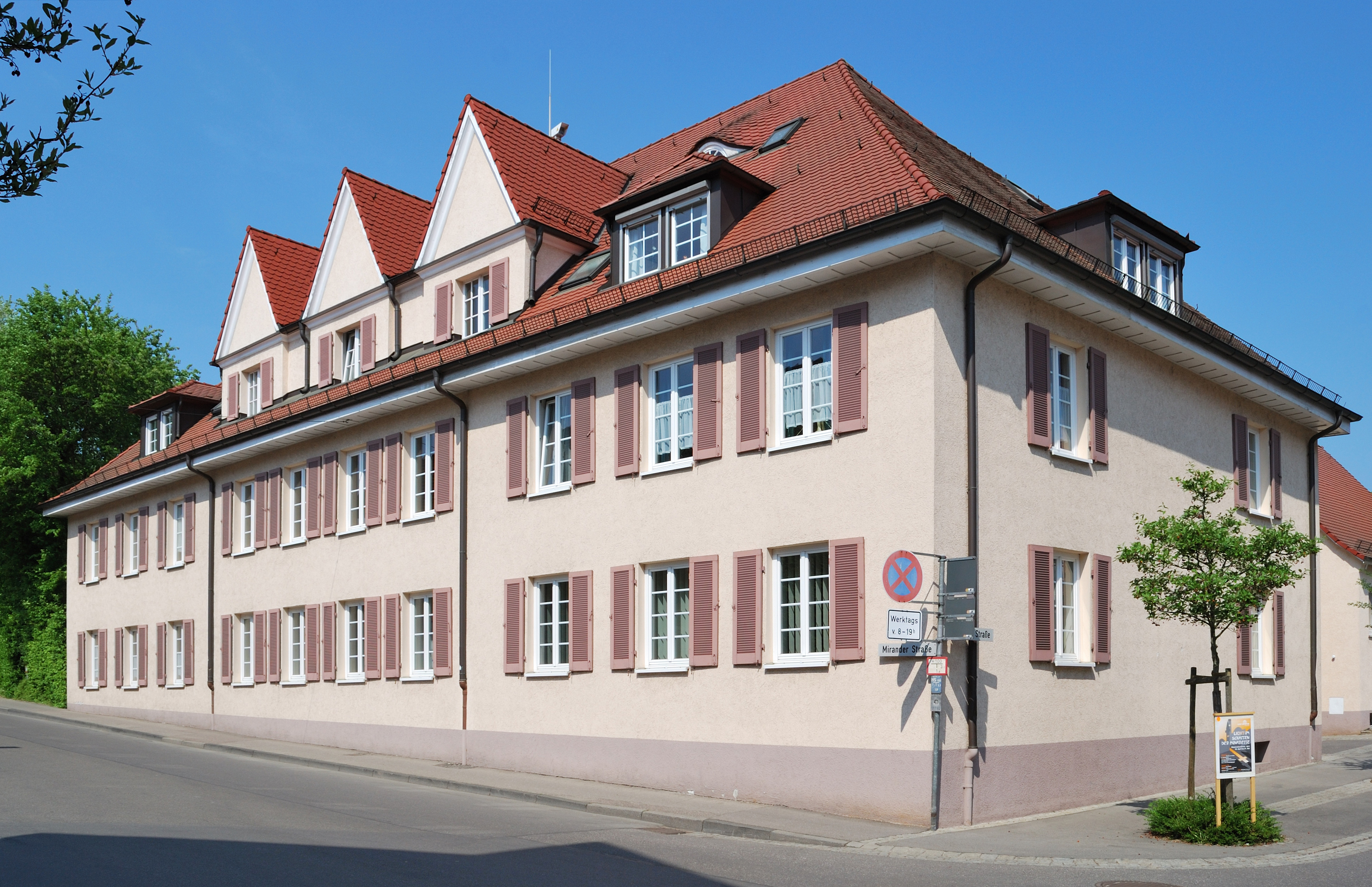 Children's home Flattichhaus in Korntal in the German Federal State Baden-Württemberg.